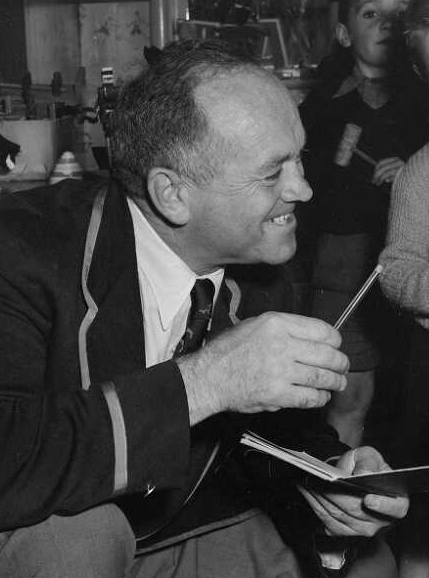 Danie Craven, coach of the 1956 Springbok rugby union football team, meets some preschool children